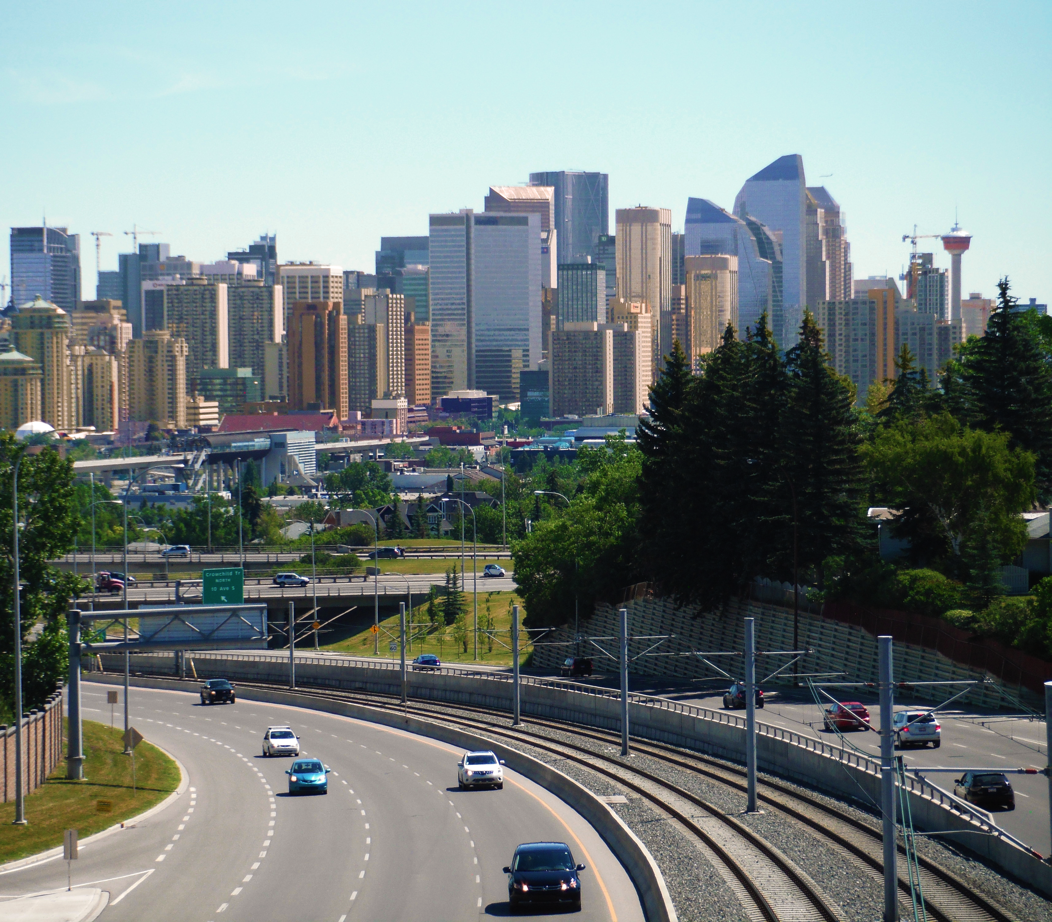 Calgary skyline view from west